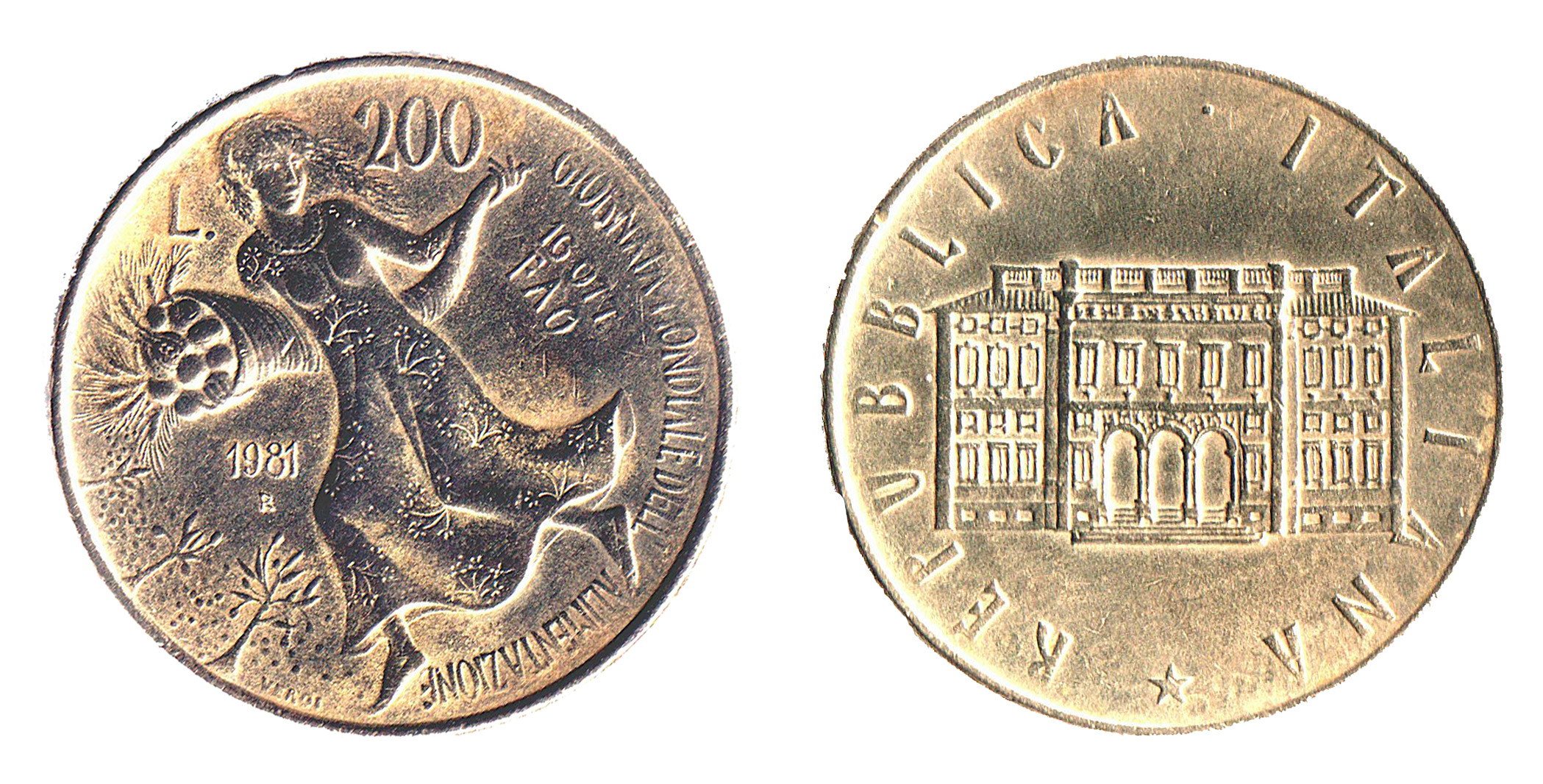 200 lire fao villa